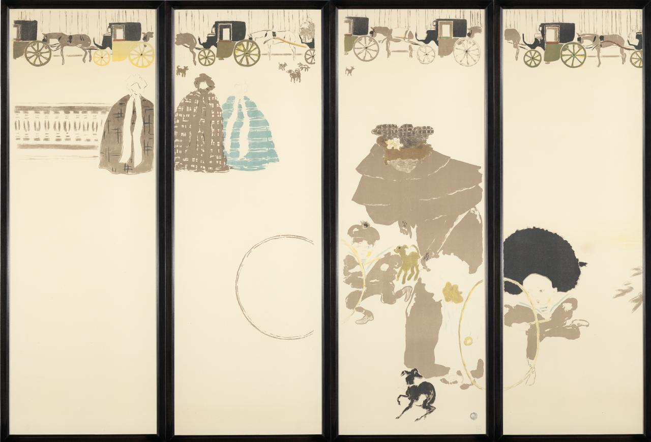 Painting by Pierre Bonnard